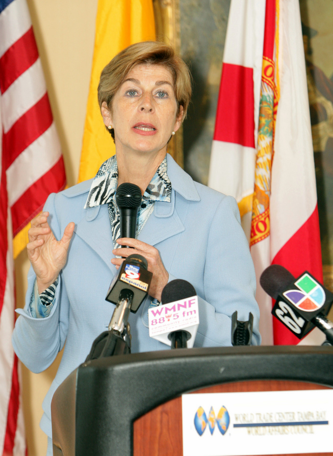 Traderoots hosts a forum with Sen. Mel Martinez and Colombian Ambassador Carolina Barco to highlight the need to pass the US-Colombian Free Trade Agreement.